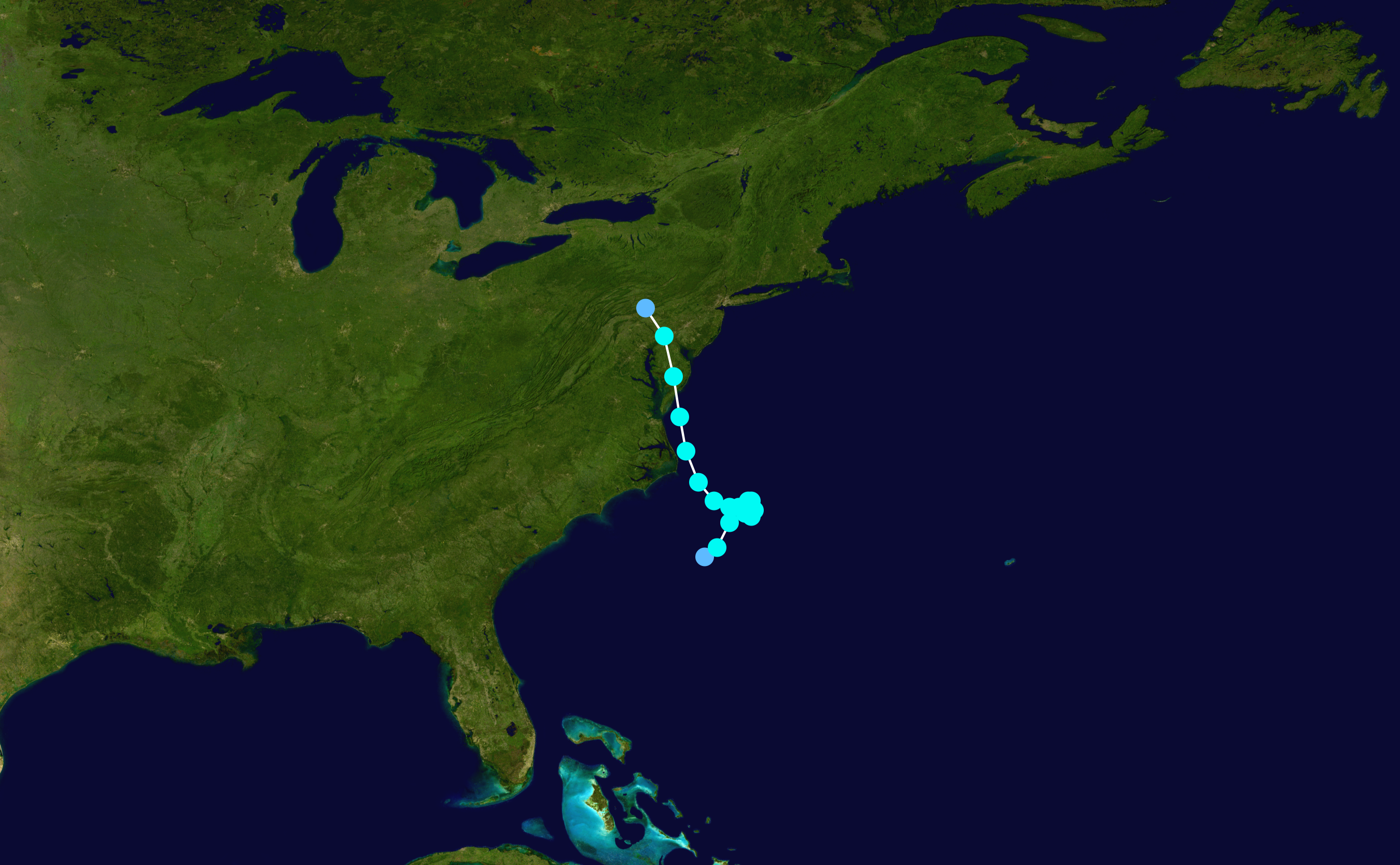 Track map of Tropical Storm Danielle of the 1992 Atlantic hurricane season. The points show the location of the storm at 6-hour intervals. The colour represents the storm's maximum sustained wind speeds as classified in the Saffir–Simpson scale (see below), and the shape of the data points represent the nature of the storm, according to the legend below. Saffir–Simpson scale Tropical depression≤38 mph≤62 km/h Category 3111–129 mph178–208 km/h Tropical storm39–73 mph63–118 km/h Category 4130–156 mph209–251 km/h Category 174–95 mph119–153 km/h Category 5≥157 mph≥252 km/h Category 296–110 mph154–177 km/h Unknown Storm type Tropical cyclone Subtropical cyclone Extratropical cyclone / Remnant low / Tropical disturbance / Monsoon depression